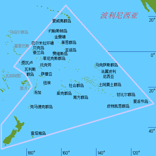 Map (rough) of Polynesia, Oceania, own work composed from various map references